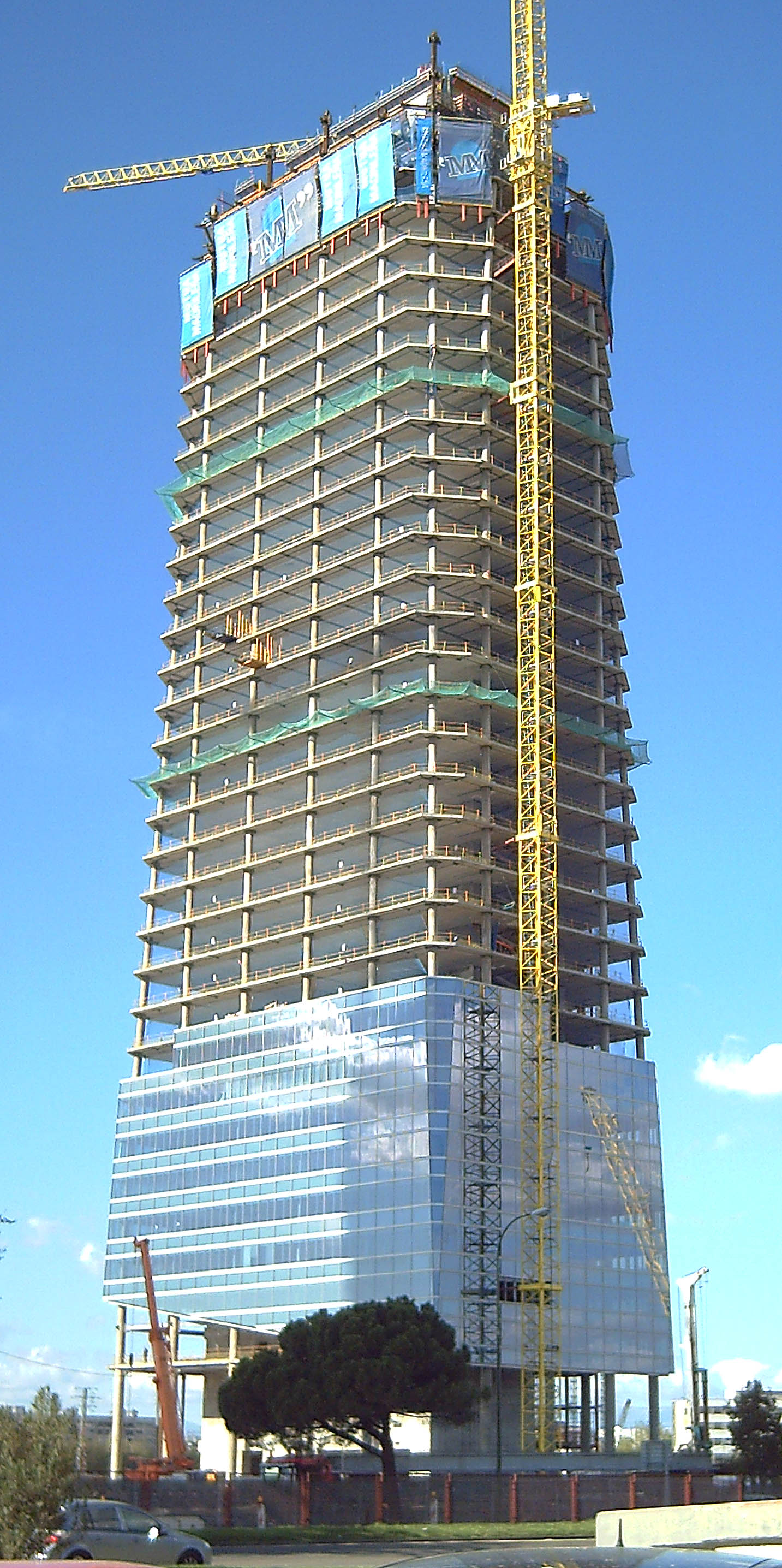 Torre de Cristal (Madrid, Spain, 2004–2008). Architects: Íñigo Ortiz & Enrique León Arquitectos and César Pelli & Associates Architects.